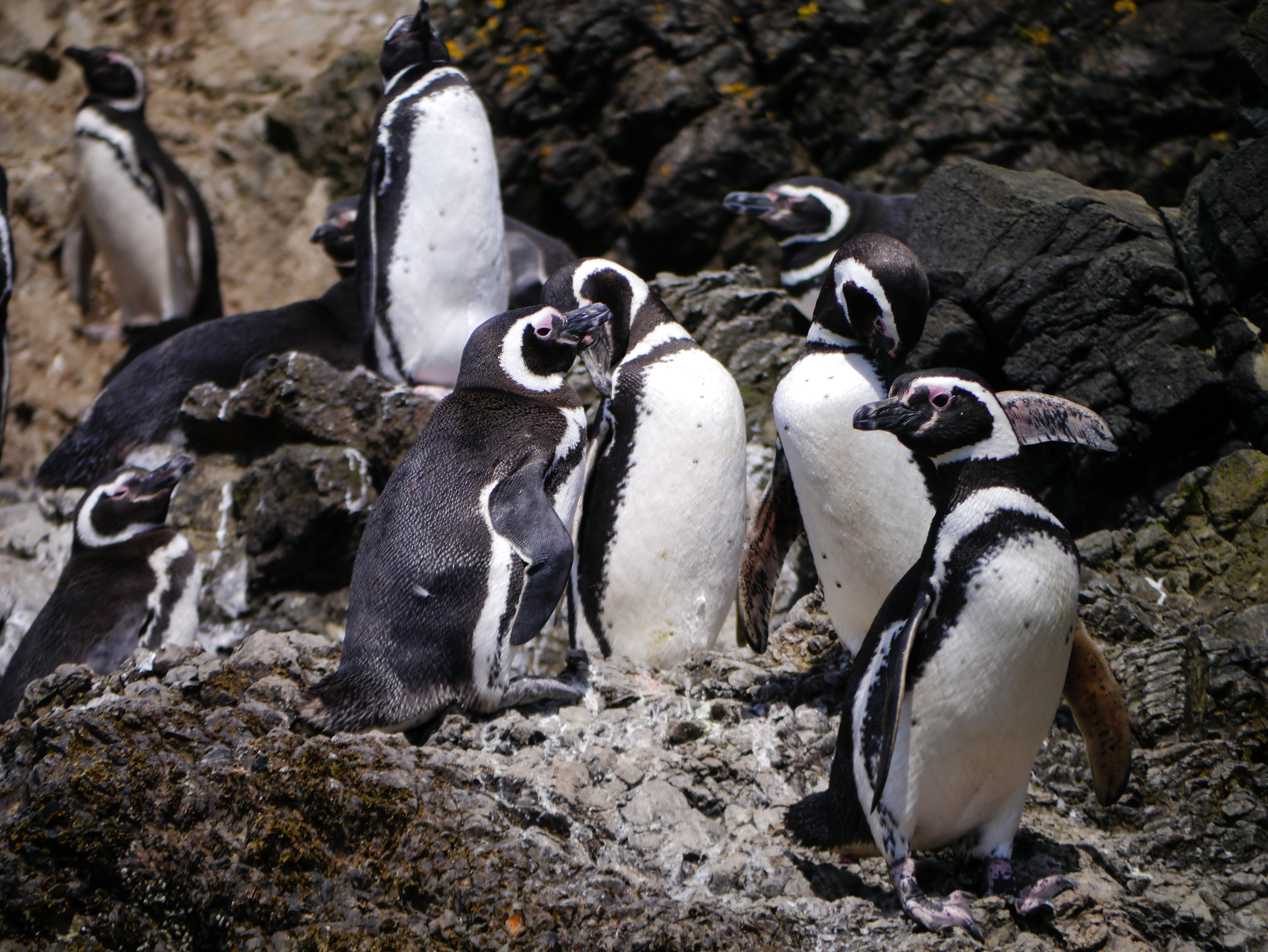 Ancud, Chile